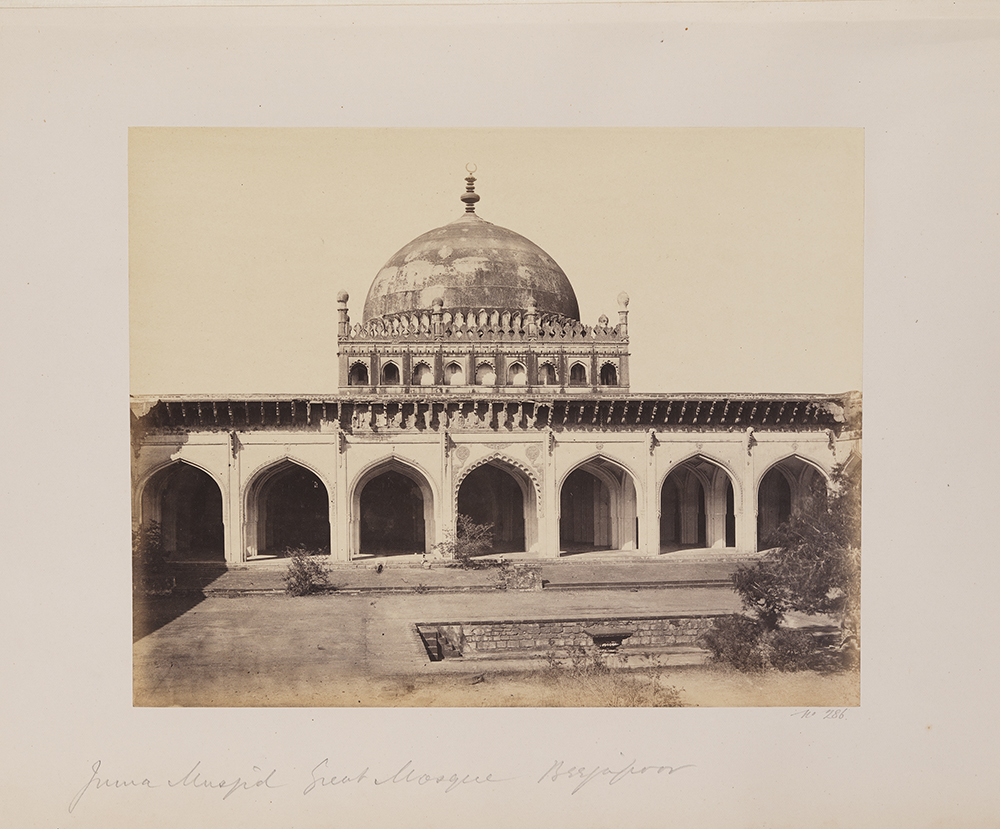 Title: Juma Masjid Great Mosque Beejapoor. Alternate Title: [Jamia Masjid, Great Mosque, Bijapur] Creator: Johnson, William Date: ca. 1855-1862 Series: Photographs of Western India. Volume III. Scenery, Public Buildings, &c. Part of: Photographs of Western India Place: Bijapur, Karnataka, India Physical Description: 1 photographic print: albumen, part of 1 volume (104 albumen prints); 20 x 26 cm on 35 x 42 cm mount File: vault_ag2002_1407x_3_286_juma_opt.jpg Rights: Please cite Southern Methodist University, Central University Libraries, DeGolyer Library when using this image file. A high-quality version of this file may be obtained for a fee by contacting . For more information, see: View Europe, India, and Asia: Photographs, Manuscripts, and Imprints